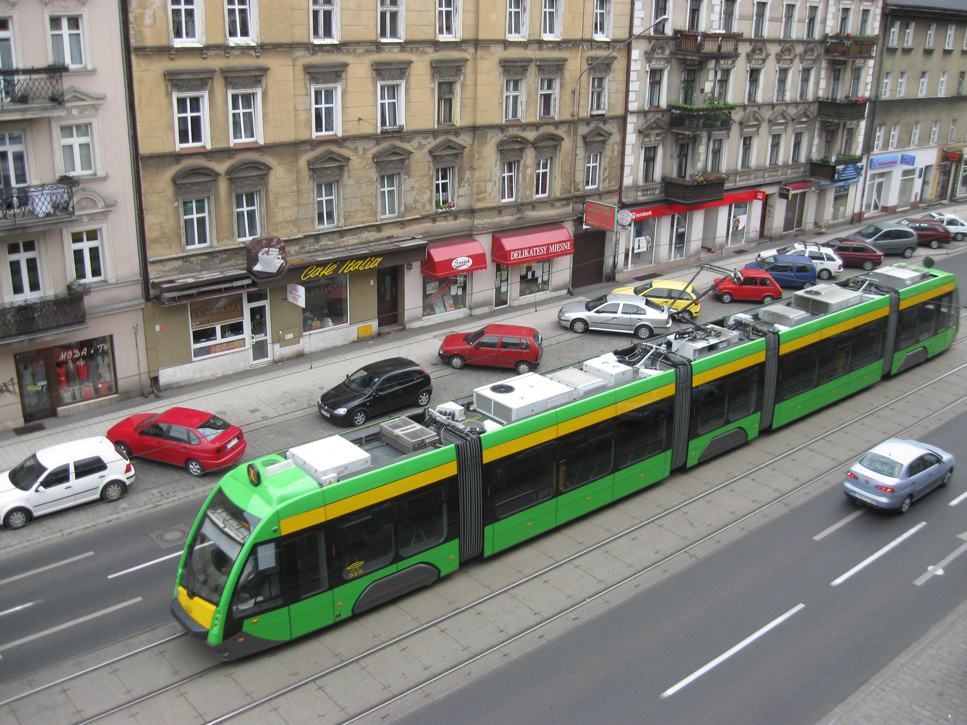 Tram Solaris Tramino on Głogowska street in Poznań.